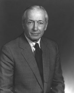 Walter John Stoessel, Jr., 7th United States Deputy Secretary of State. U.S. Ministers and Ambassadors to Russia, American Embassy, Moscow